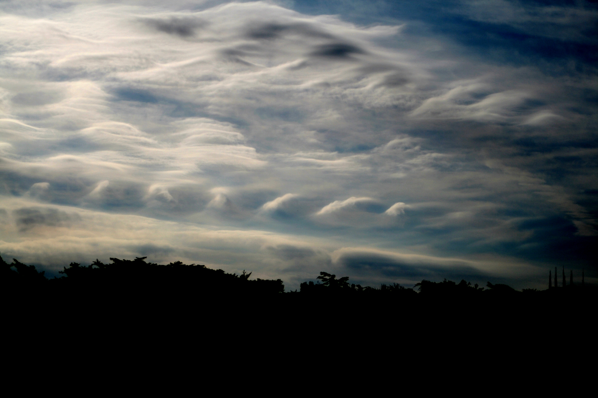 Kelvin Helmholtz instability clouds in San Francisco. These clouds (classifiable as Cirrus spissatus fluctus, according to International Clouds Atlas, and sometimes called "billow clouds") are produced by instability, when horizontal layers of air brush by one another at different velocities. A better name might be van Gogh clouds: It is widely believed that these waves in the sky inspired the swirls in van Gogh's masterpiece Starry Night